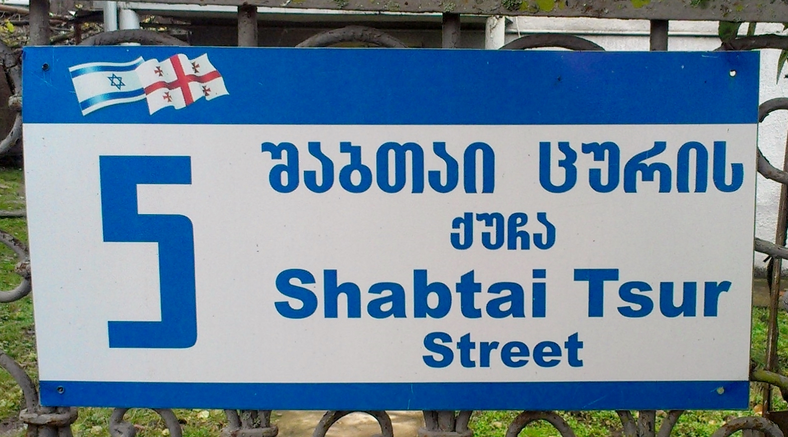 Sign of Shabtai Tsur street in Vani, Georgia